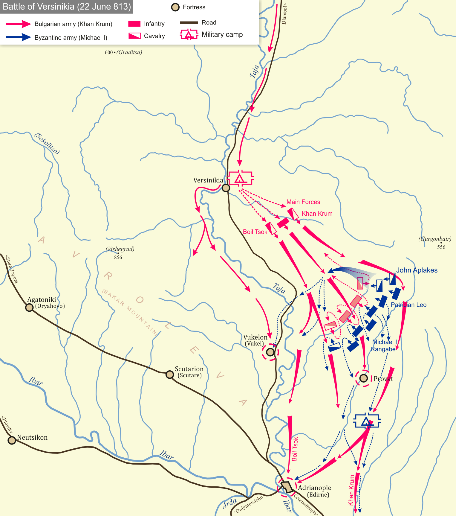 Battle of the Versinikia (22.06.813)